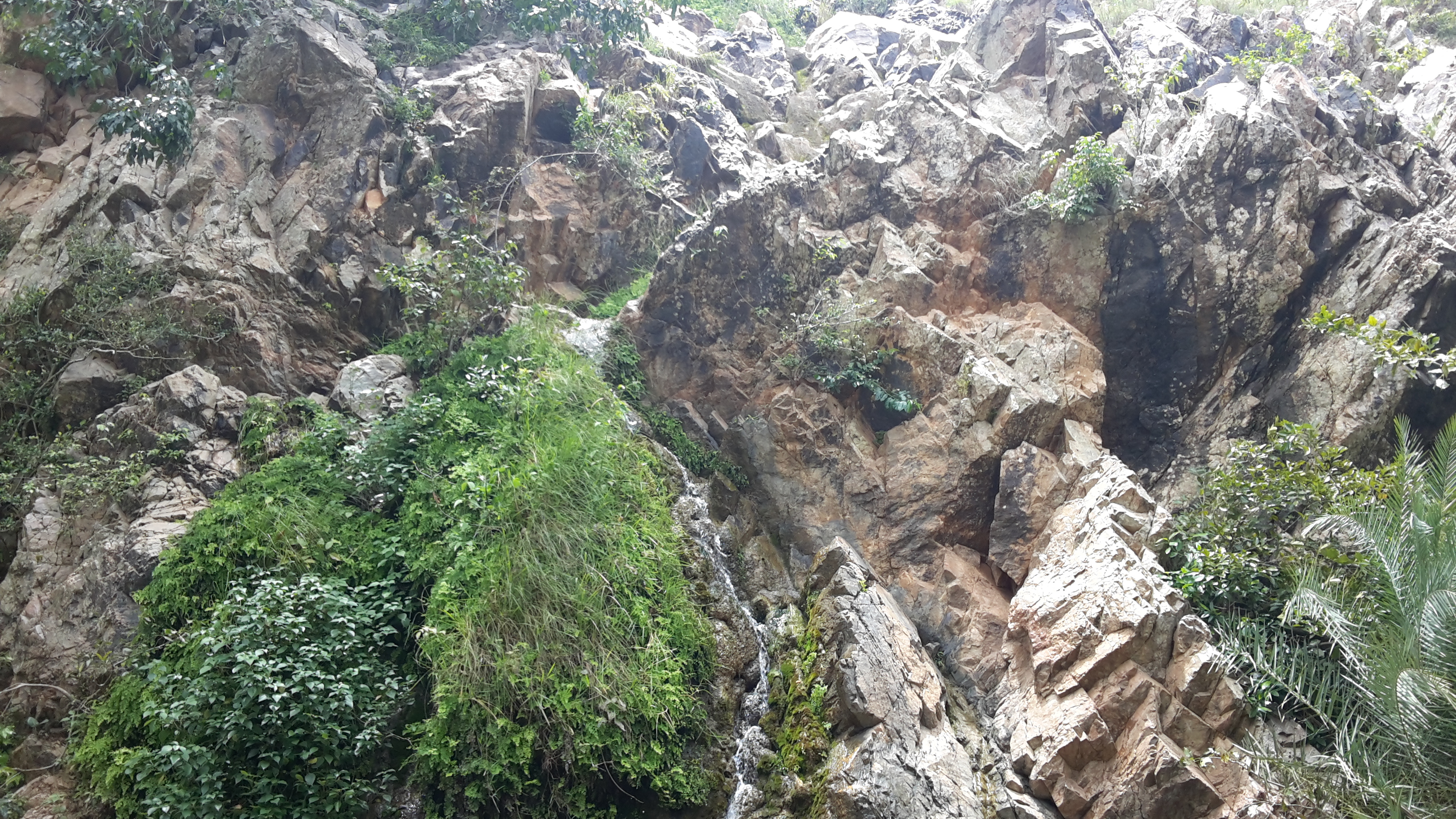 muthyalamaduvu waterfall (near bangalore)